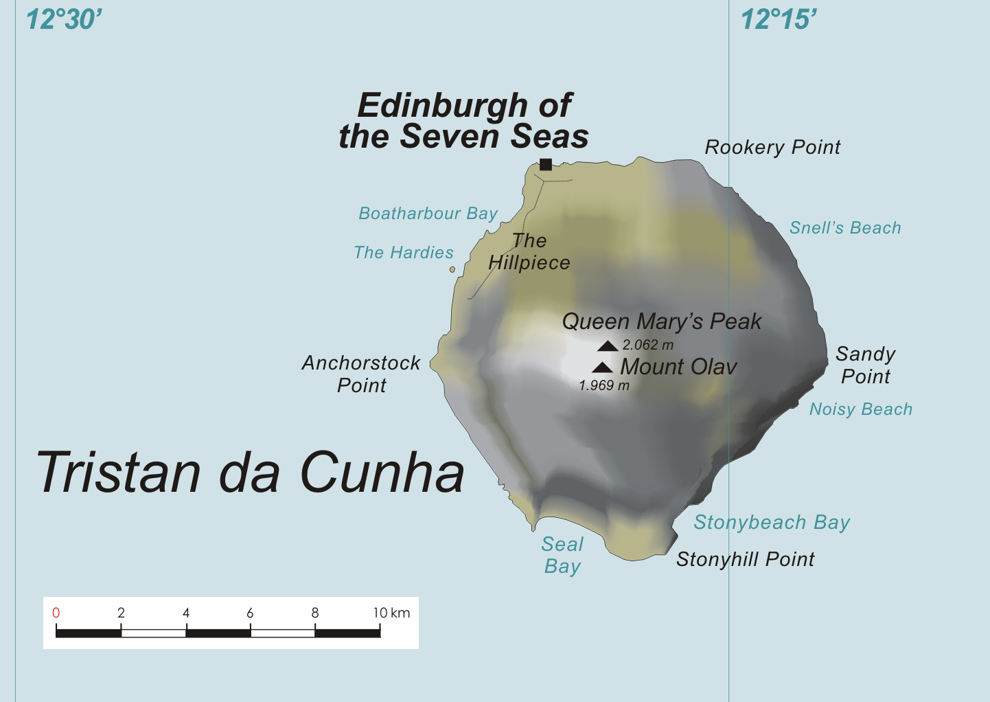 Map of the main island of Tristan da Cunha in the Southern Atlantic Ocean